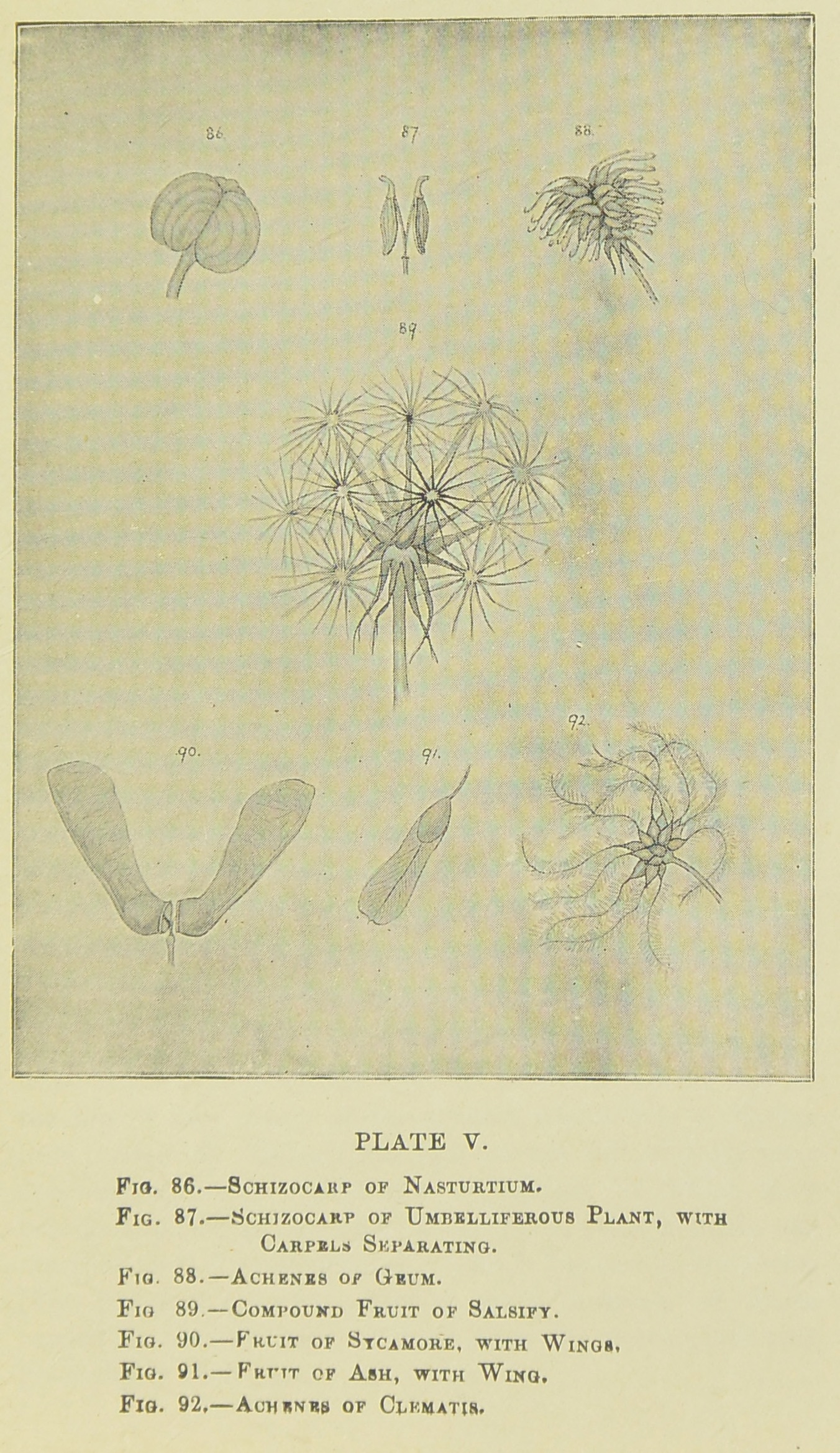 Botanical drawings from botany textbook